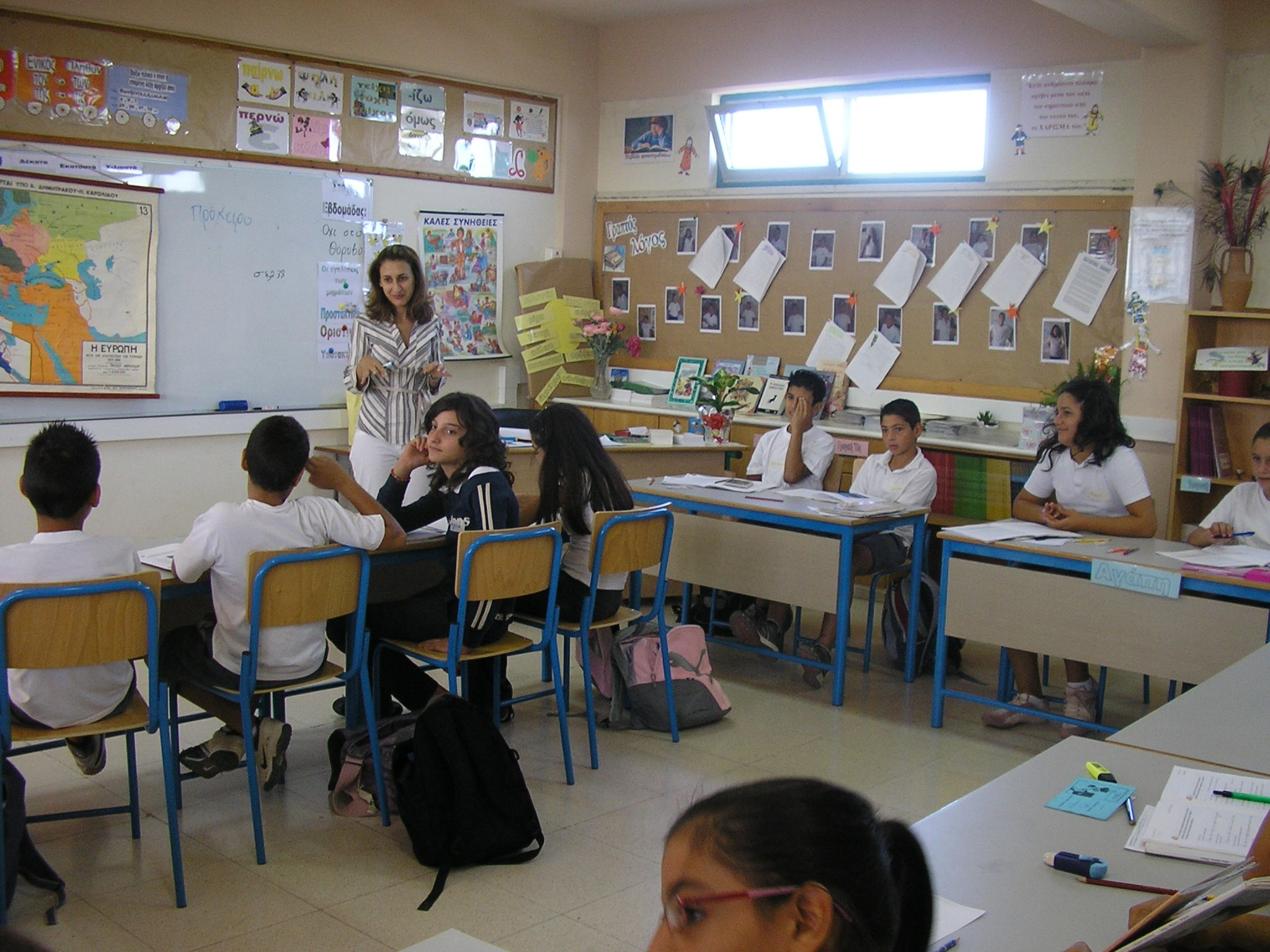 School class on Cyprus